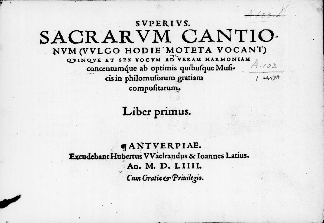 Title page of the Sacrarum cantionum (vulgo hodie moteta vocant) quinque et sex vocum ad veram harmoniam concentumque ab optimis quibusque musicis in philomusorum gratiam compositarum, volume for first voice, published by Hubert Waelrant and Jan de Laet in Antwerp in 1554-1555